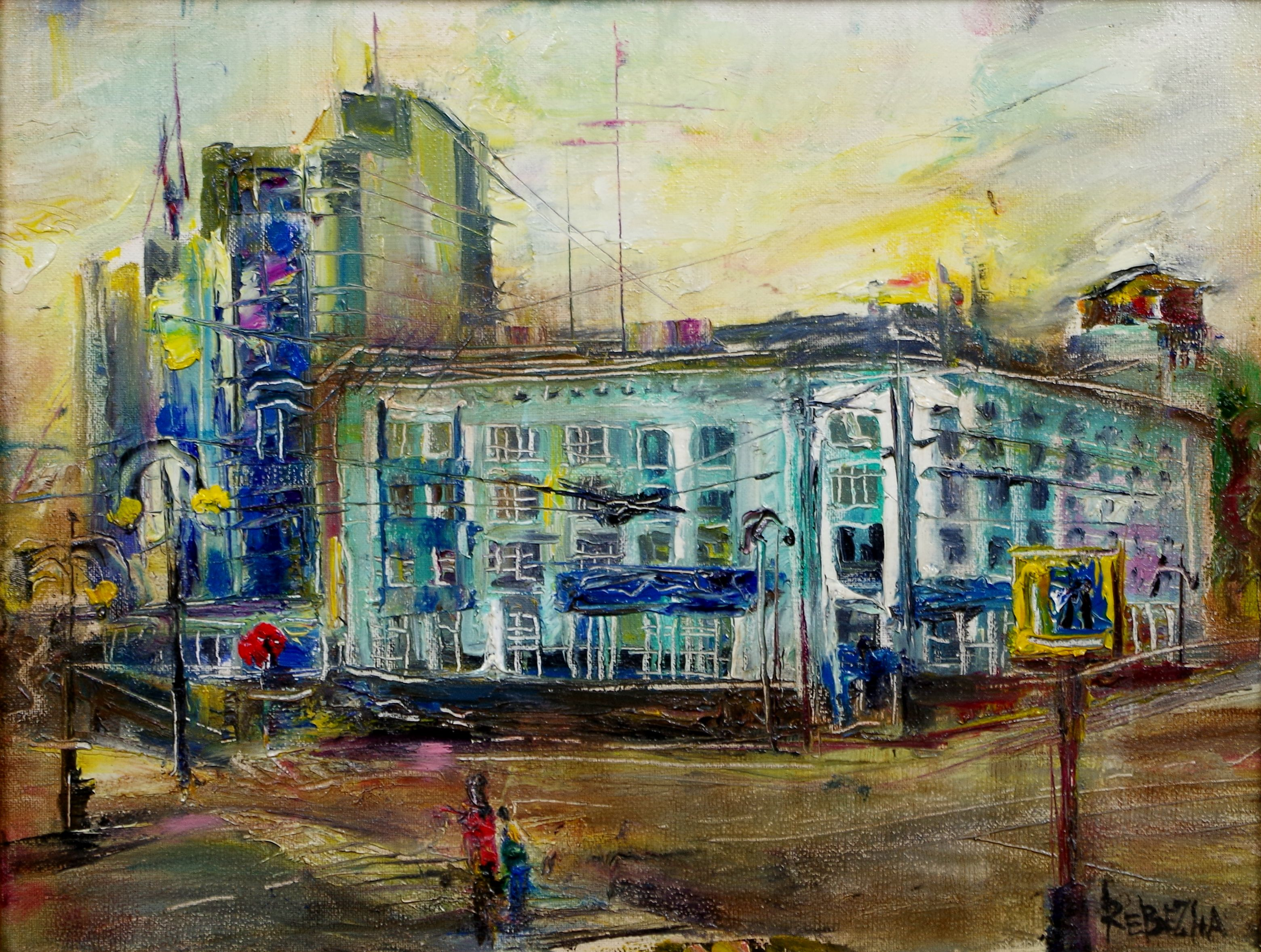 Ekaterina Rebezha. "Red.six". Oil on canvas. 26x34 cm. The painting depicts the Red Square of Kursk, view of house N6. Spring, 2013.